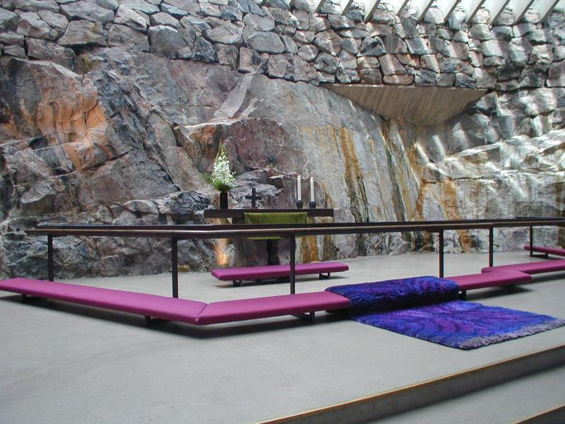 Inside Temppeliaukio Church, Helsinki.